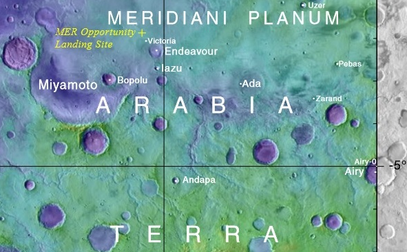 Map showing the location of Beer Crater